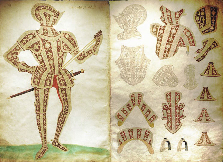 This is an image from the Jacob Album, displaying a design for a suit of armor for Sir George Clifford, 3rd Earl of Cumberland